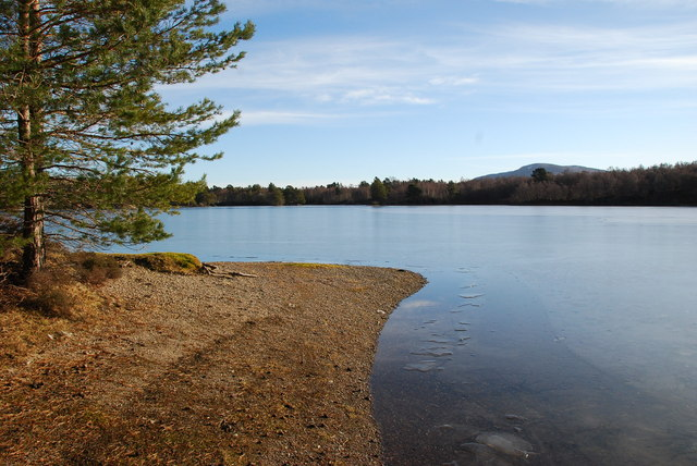 Loch Vaa Partly frozen,this Loch is close to the Laggantygown Cemetery. Nearby is the A95 to Grantown-on-Spey.